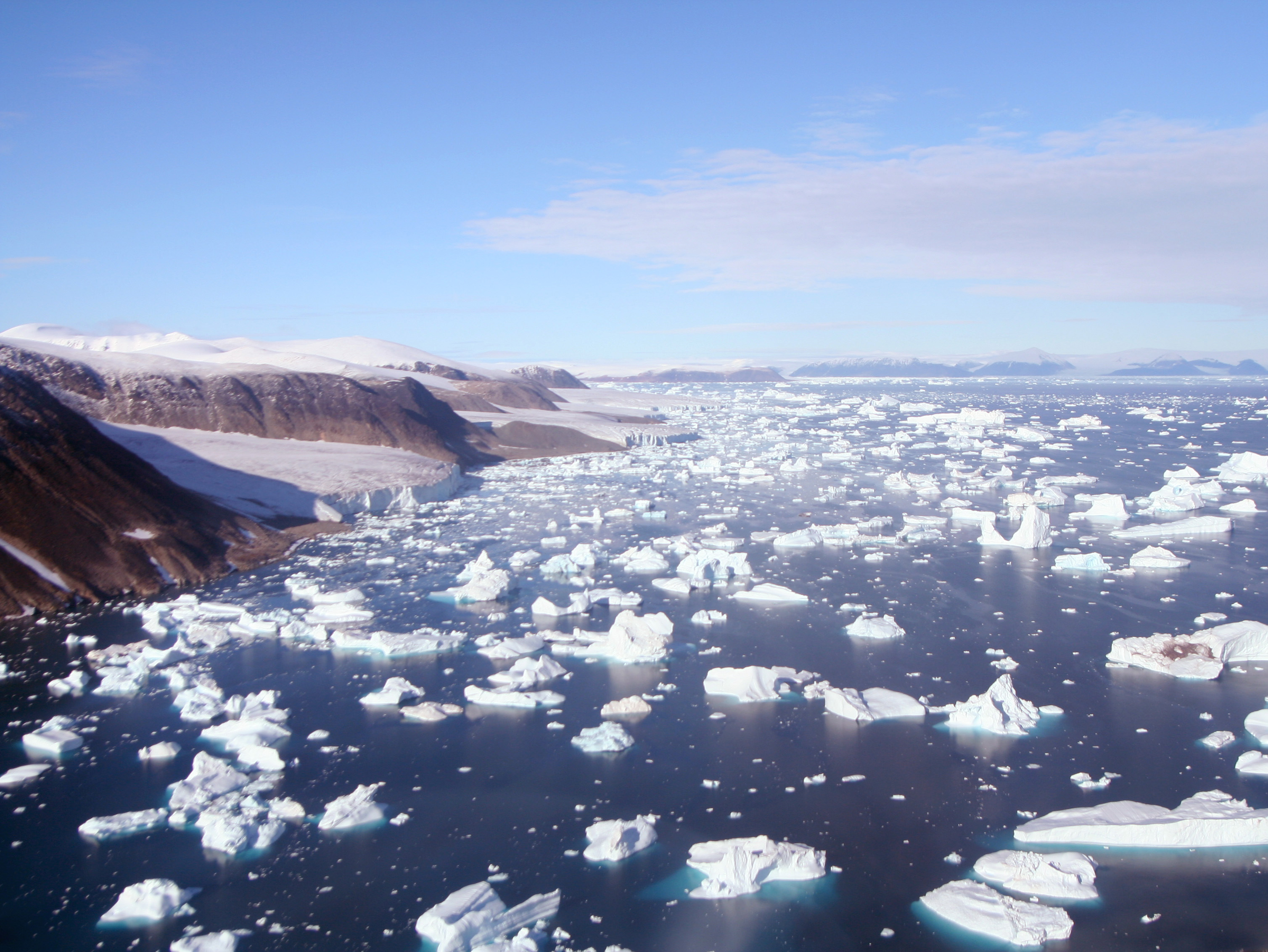 Icebergs are breaking off glaciers at Cape York,Greenland. The picture was taken from a helicopter.